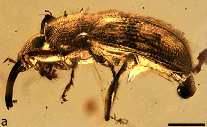 Acalyptopygus elongatus, holotype. Habitus, left lateral (a); Scale bar: 0.5 mm